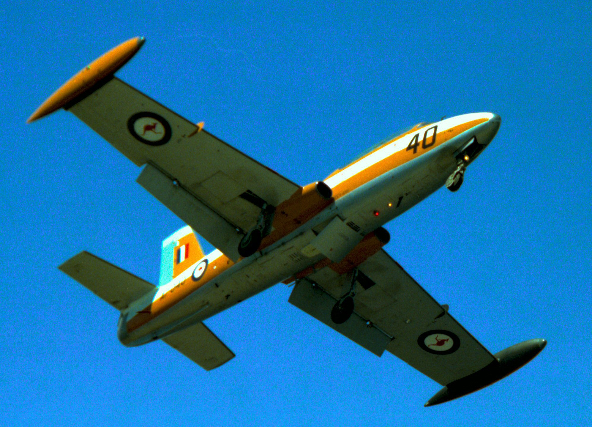 RAAF Macchi MB-326 A7-040, off Fremantle during a flypast of Australian aircraft carrier HMAS Melbourne, circa August 1980